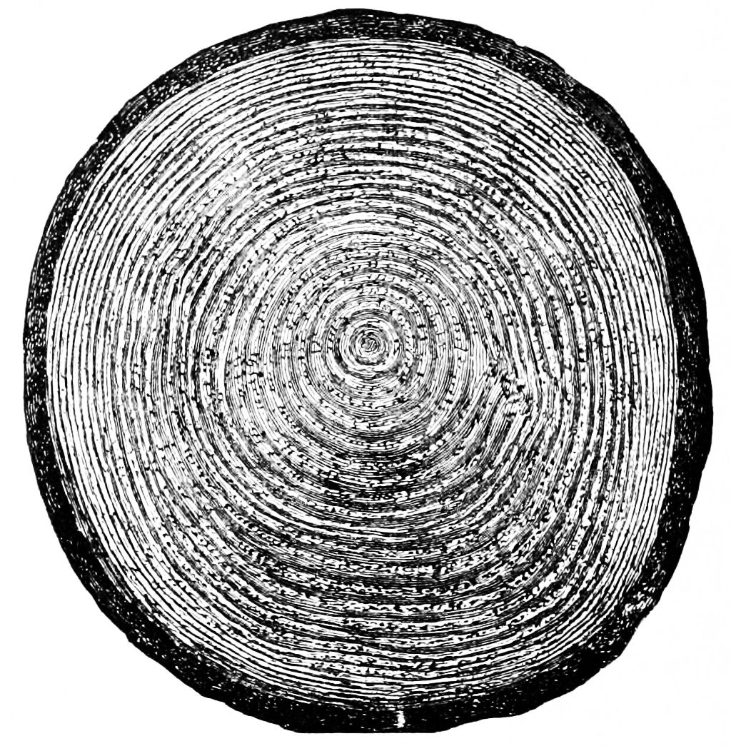 Annual_ring_growth